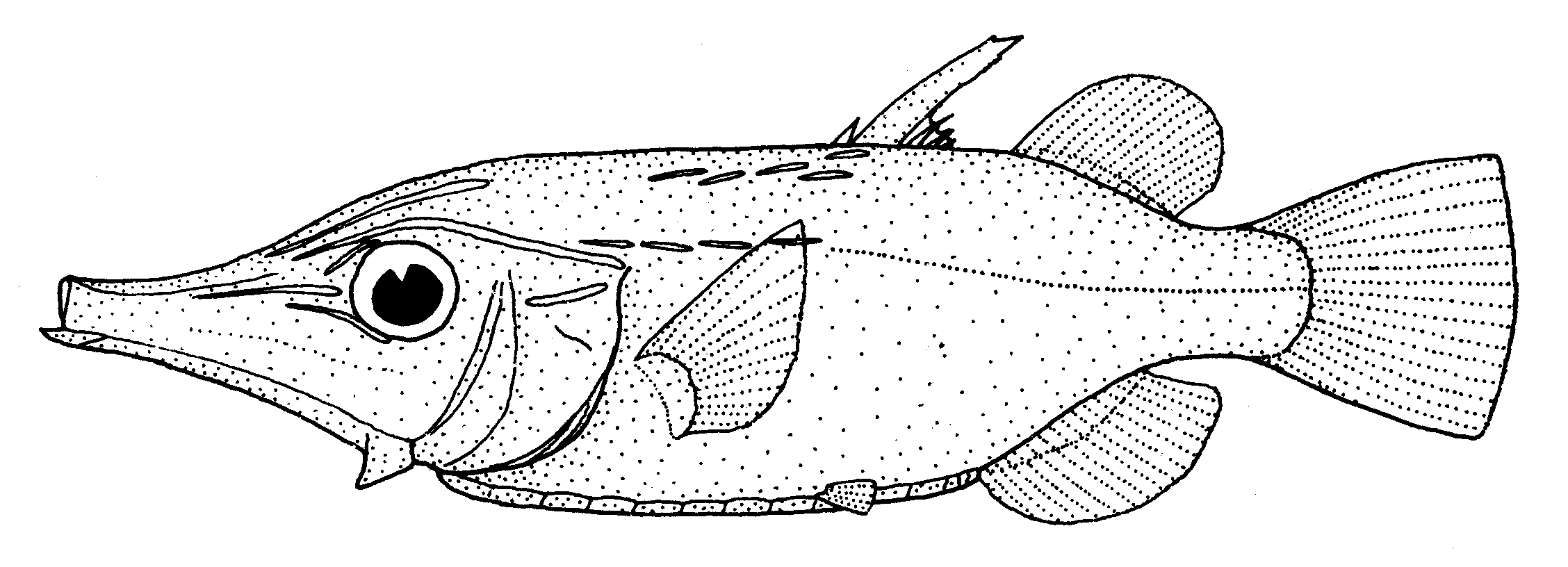 Macroramphosus gracilis (Slender snipefish)